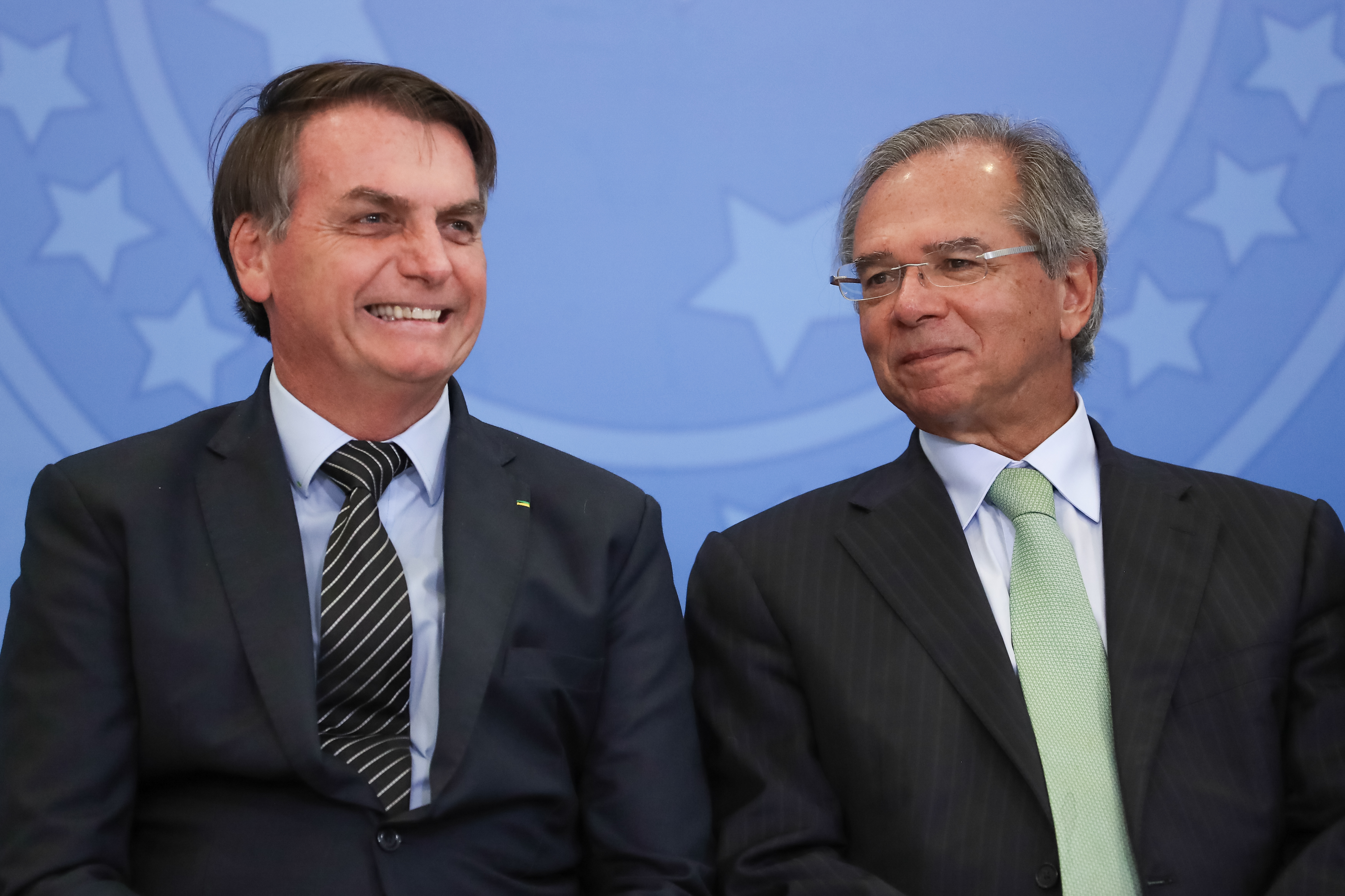 President Jair Bolsonaro and Minister of the Economy Paulo Guedes on February 20, 2020.